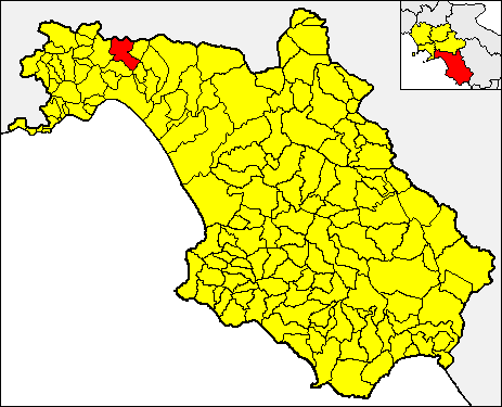 Locator map of the municipality of Fisciano (red) within the Province of Salerno